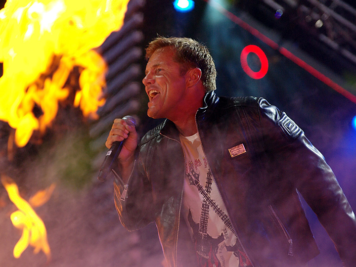 Author: me, source: live concert, free for all to use Dieter Bohlen Live in Moscow 2009